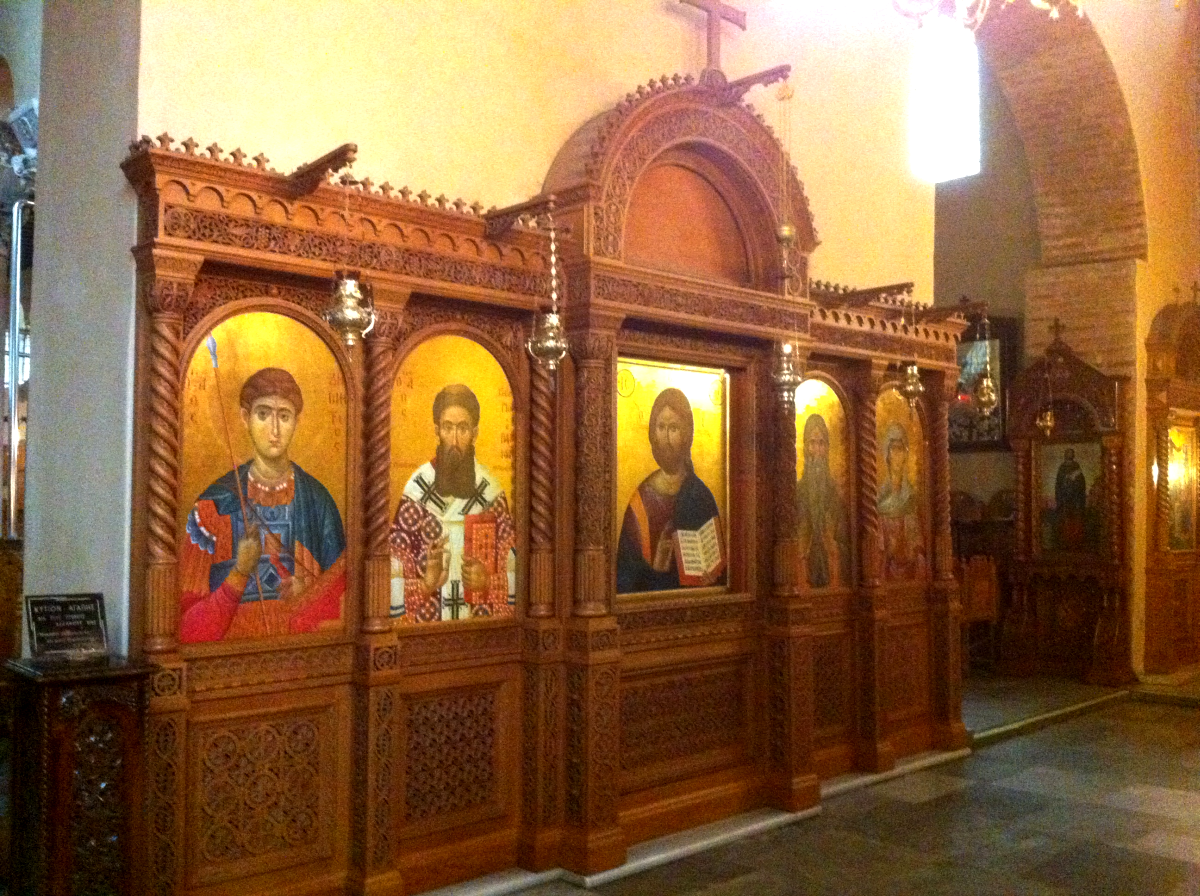 Several icons held in a large kiot for veneration in a church narthex.